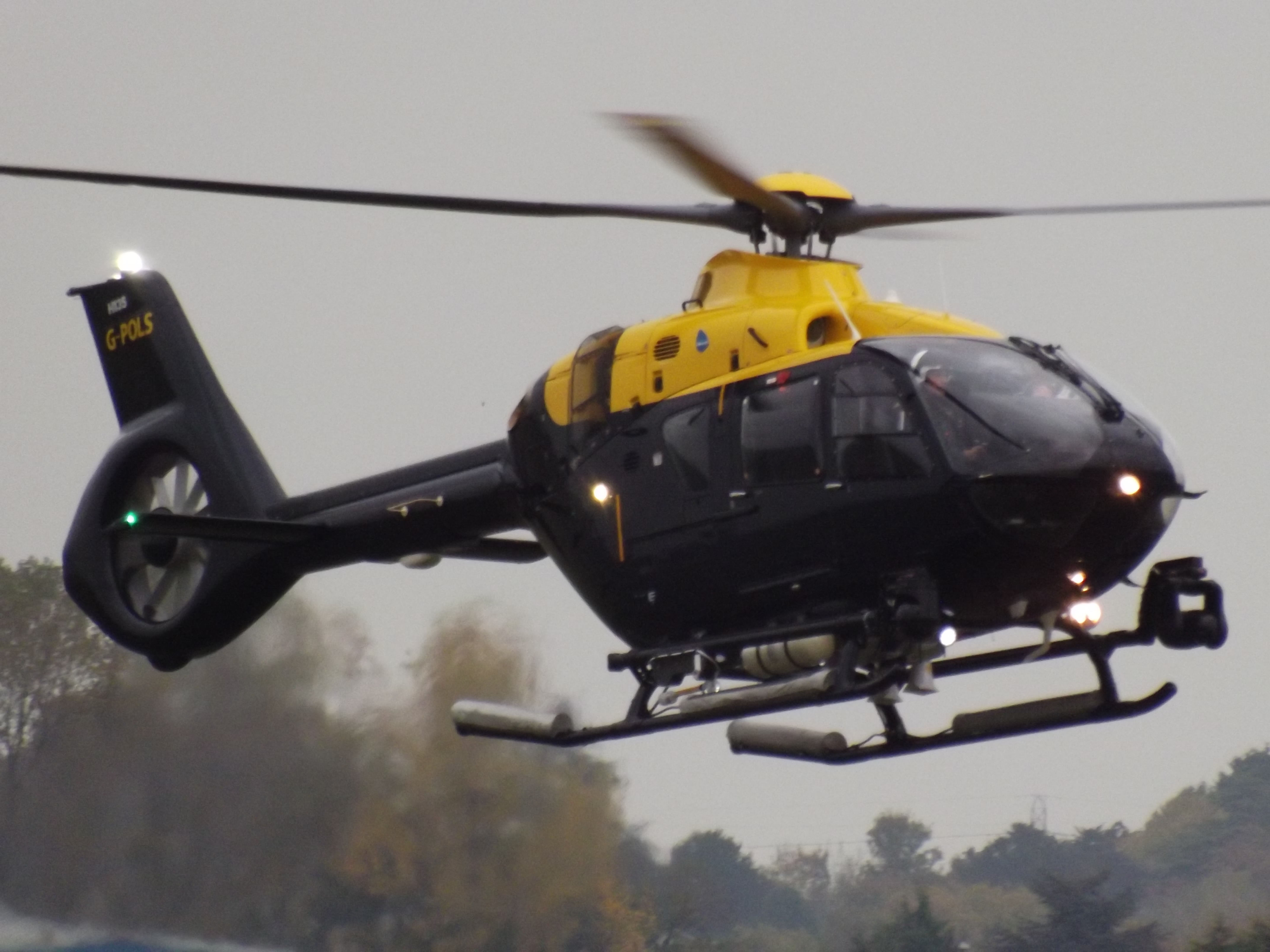 At Gloucestershire Airport.